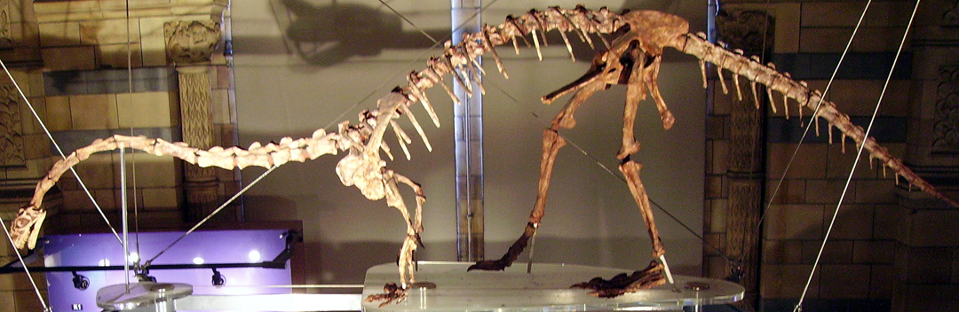 A mounted Massospondylus skeleton at the Natural History Museum, London, showing an outdated pre-2007 pose